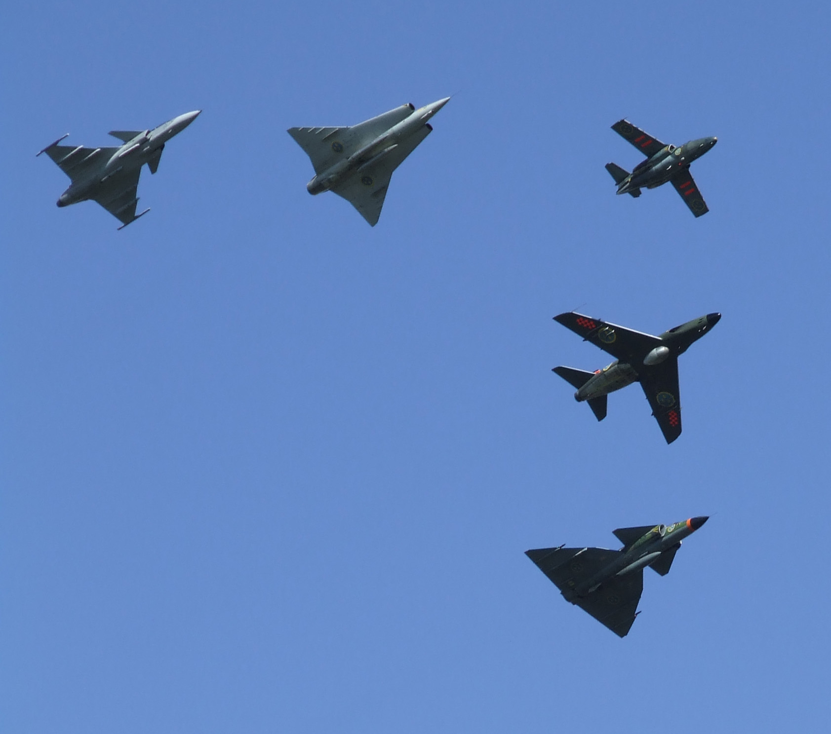 From left to right: Saab 39 Gripen, Saab 35 Draken, Saab 105, Saab 32 Lansen and Saab 37 Viggen.